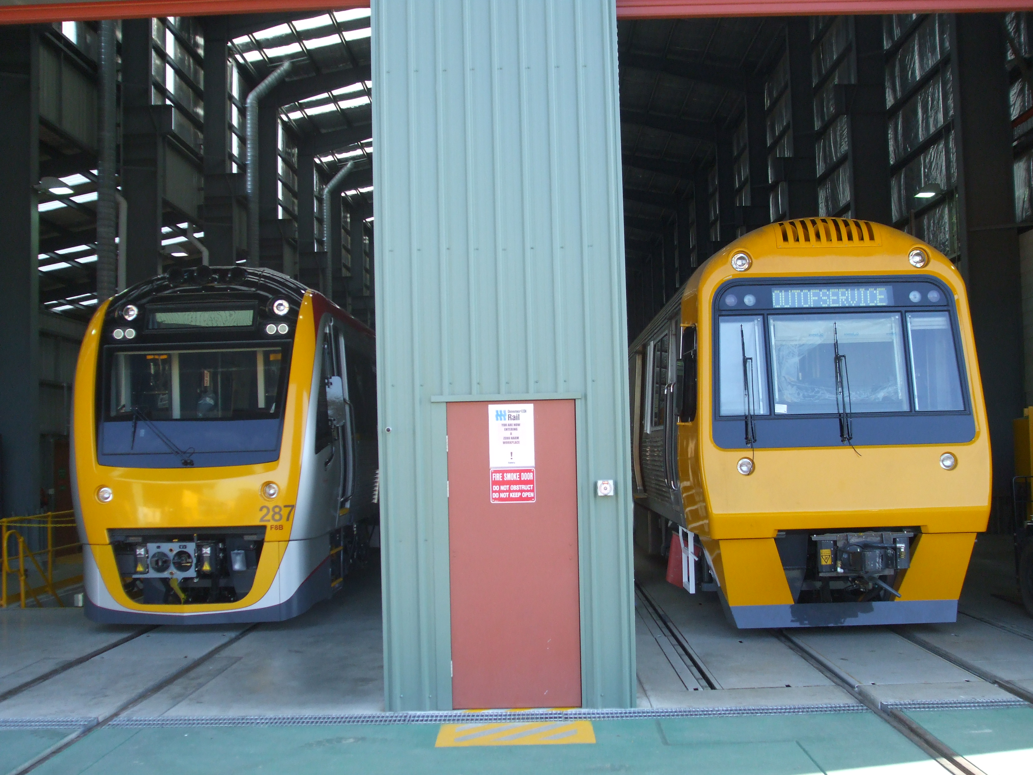 A brand new SMU 260 sits next to a refurbished SMU 220 at Maryborough Downer/EDi Rail.